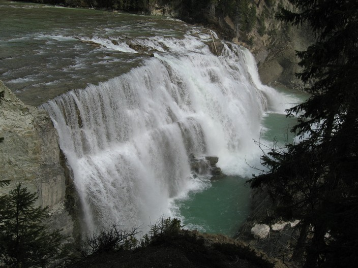 Waterfall near Trans-Canada Highway